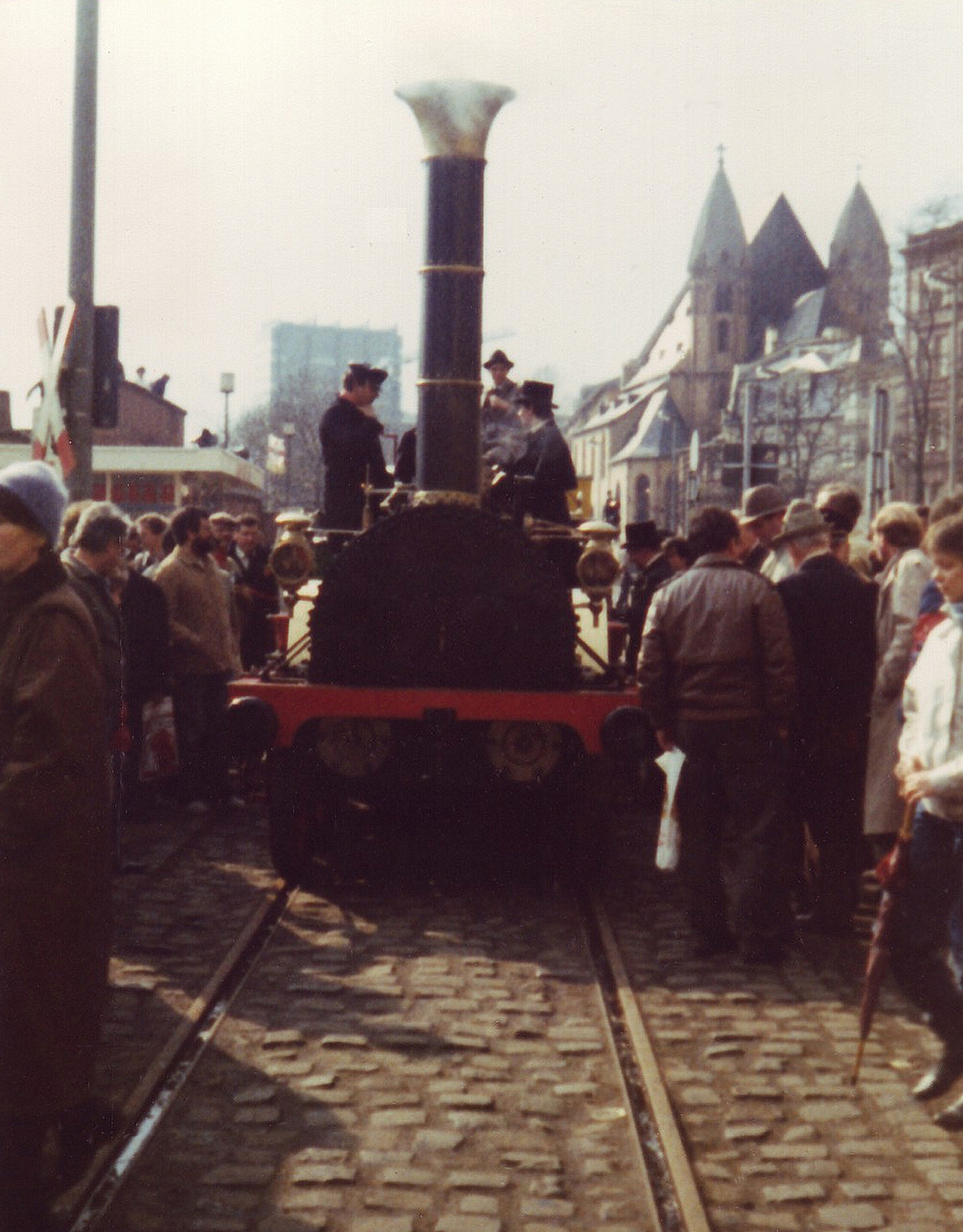 first steam locomotive in Germany Adler (reproduction of 1935), front view, at the Eiserner Steg on the Frankfurt City Link Line, Frankfurt am Main, Germany, May 1985